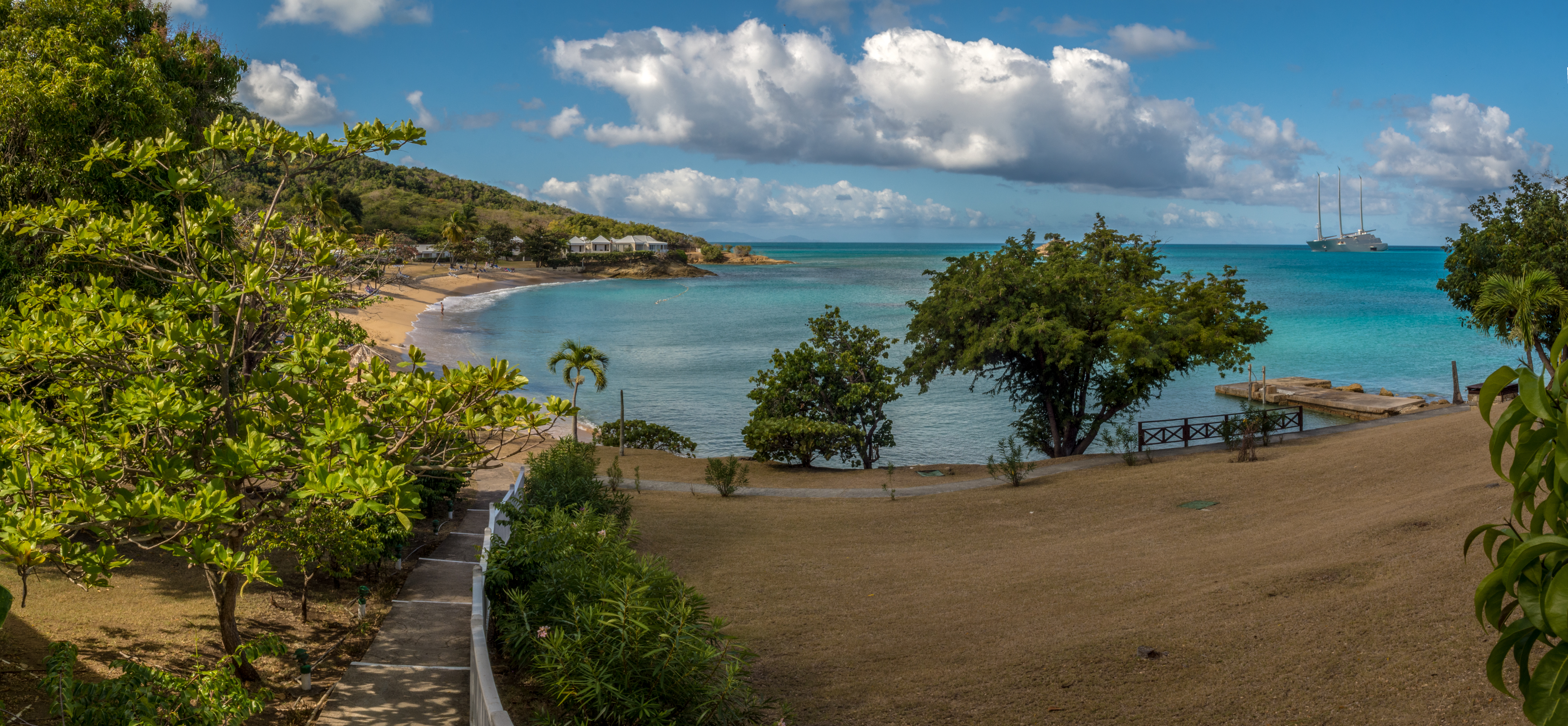 This morning view of Sea Grapes Beach at the Rex Resorts’ Hawksbill Hotel, Five Islands, Antigua shows the world’s largest yacht at anchor off Hawksbill Bay. The $450m, 142m long Sailing Yacht A is owned by billionaire Andrey Igorevich Melnichenko and was built in Kiel, Germany by Nobiskrug and features design by Philippe Starck.